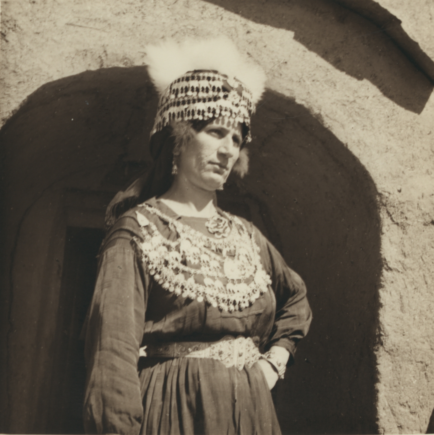 Assyrian refugees at Tell-Tamar and the Khabour River, July 21. Something of the twenty-seven villages built here by the League of Nations. The women's national costume has disappeared all but the jewelry. LC-DIG-ppmsca-17416-00117 (digital file from original on page 62, no. 2089)